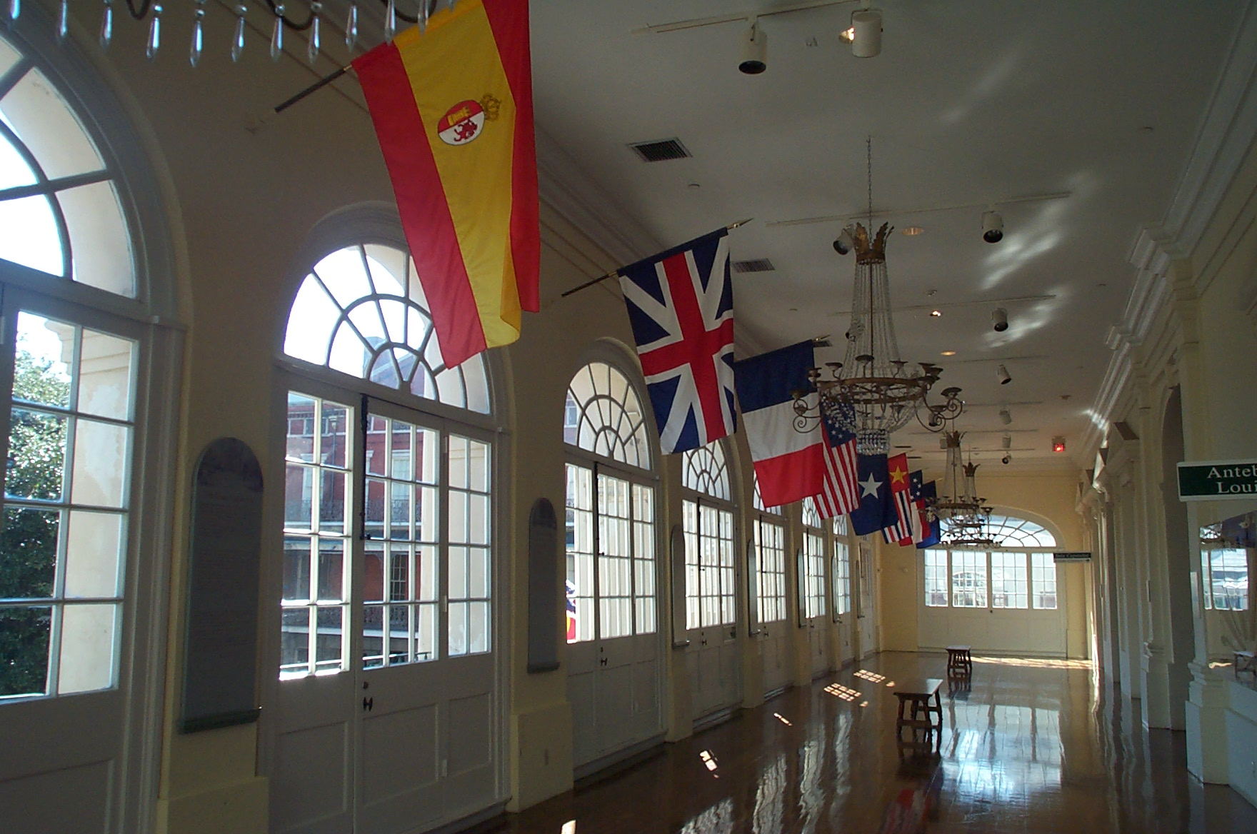 New Orleans